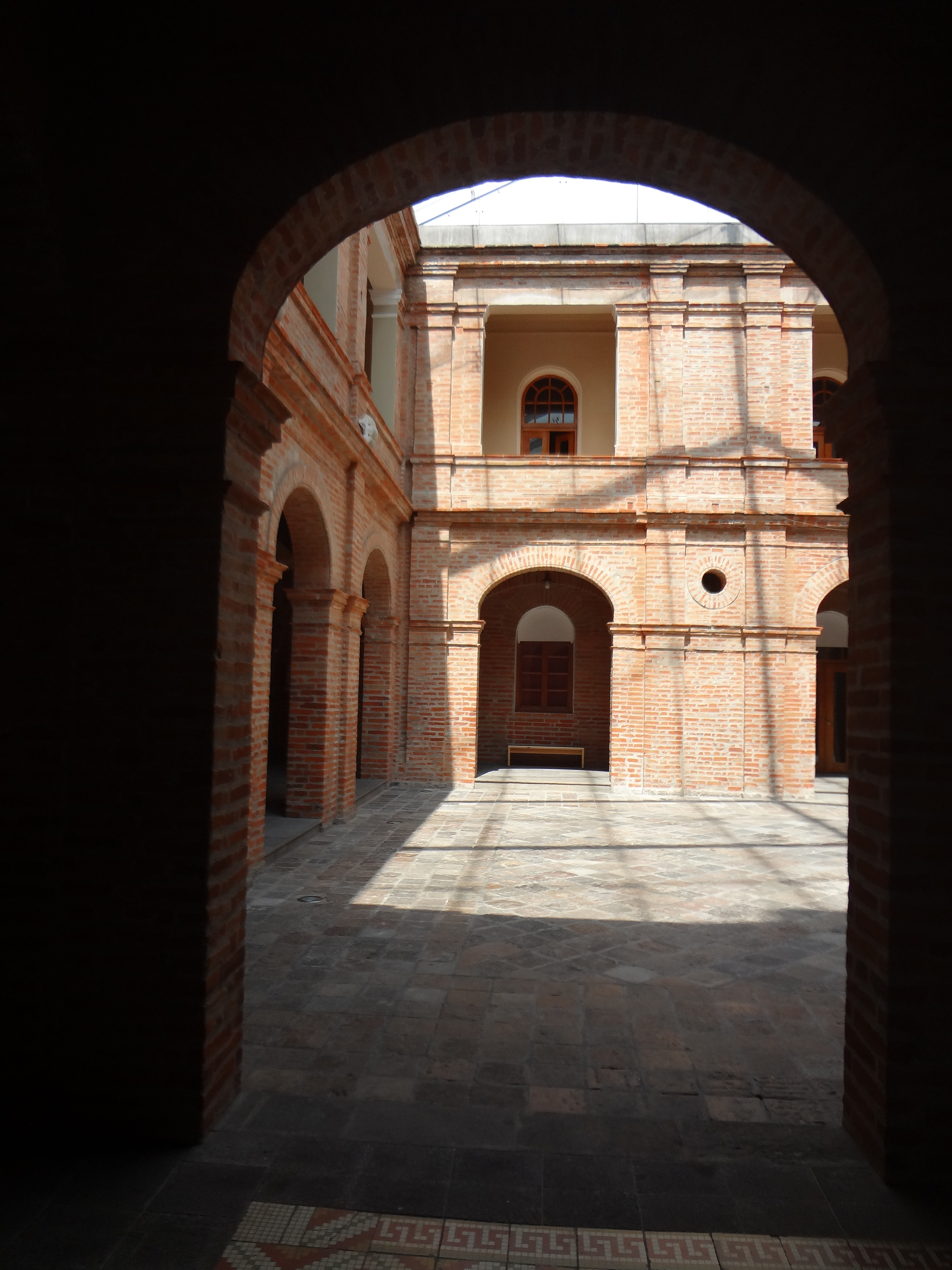 Contemporary Art Center, (Centro Histórico de Quito)